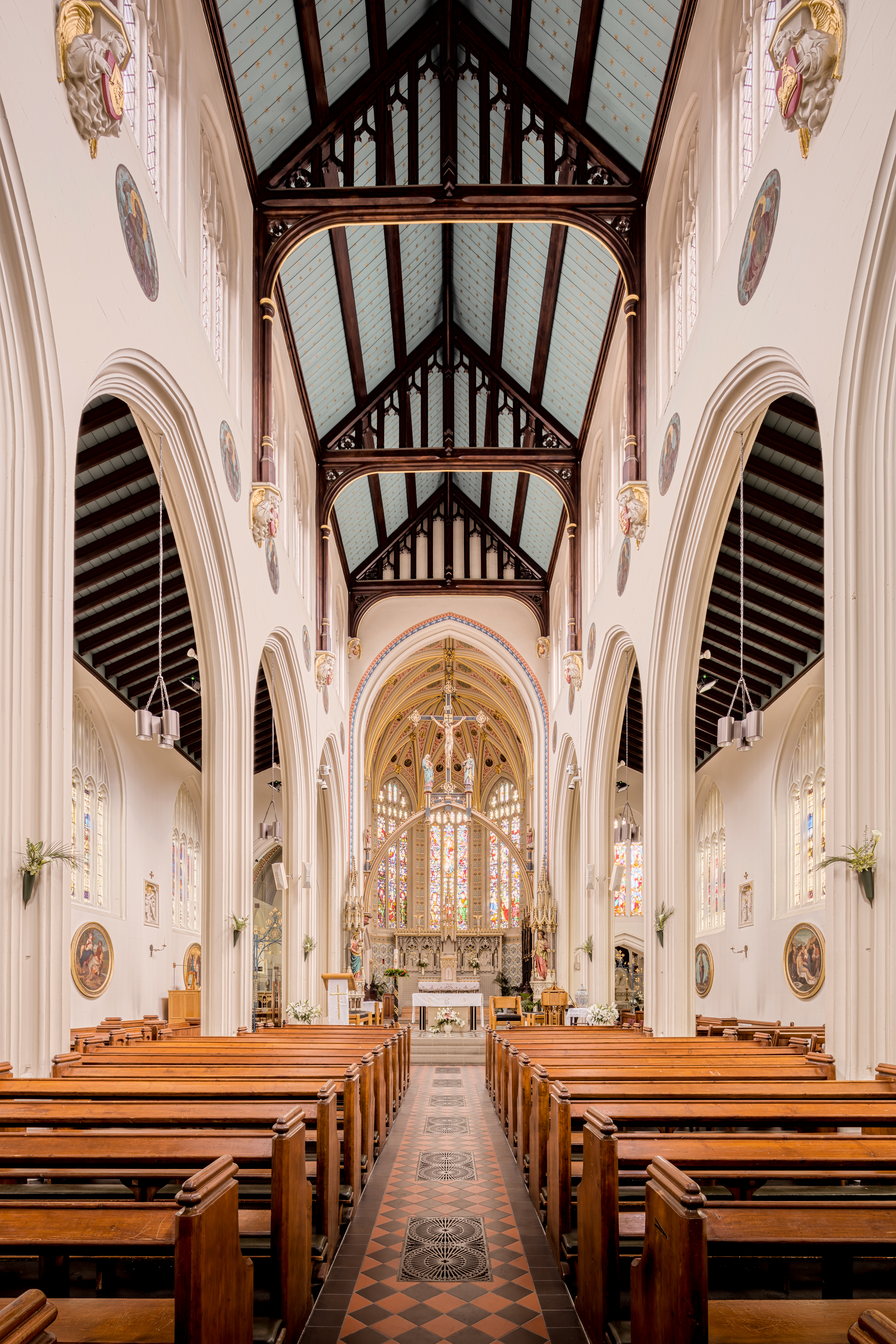 Here is an hdr photograph taken from the nave inside St Marys Church. Located in Derby, Derbyshire, England, UK.